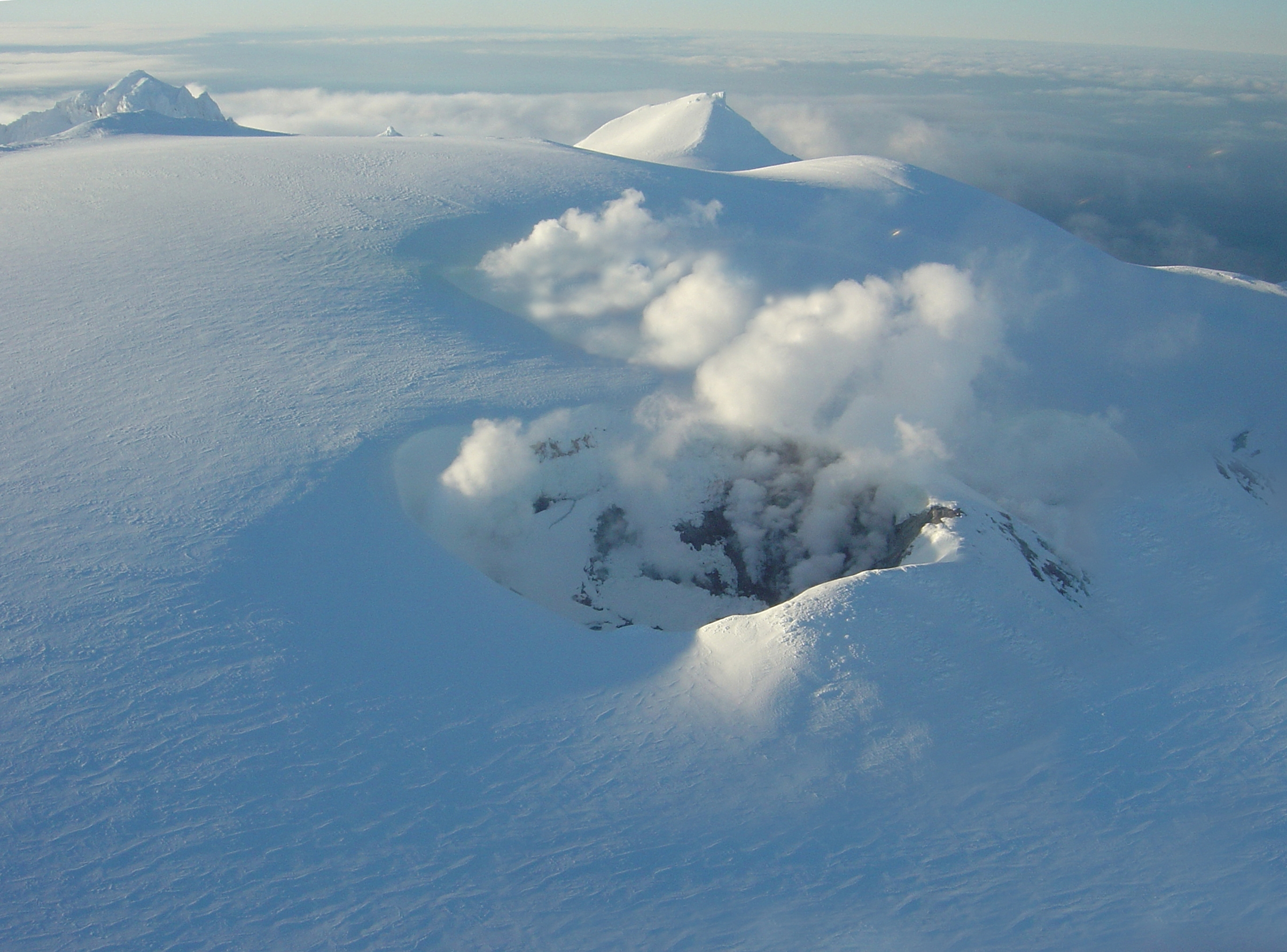 A snow-shrouded Makushin Volcano emits steam and volcanic gases melting away the snow in the caldera. Alaska, Alaska Peninsula.